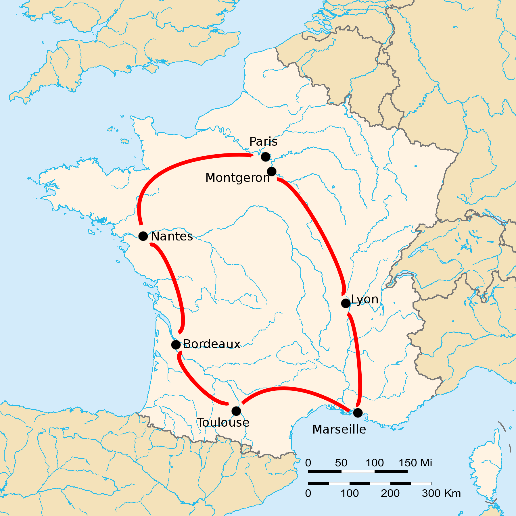 Map of the stages of the 1903 and 1904 Tour de France.